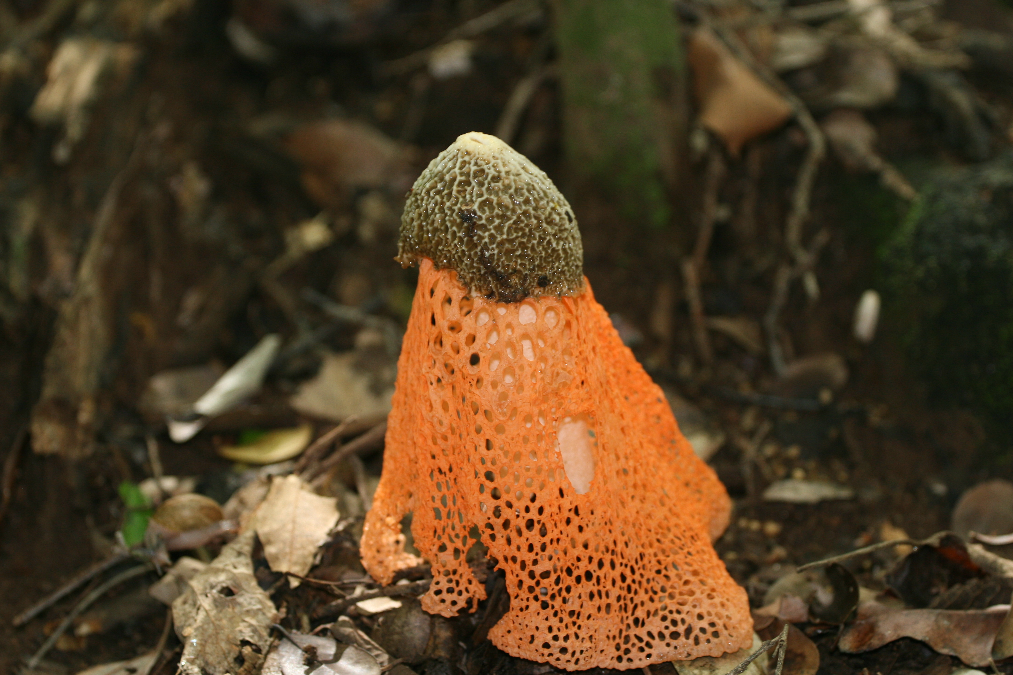 At Sri Lanka